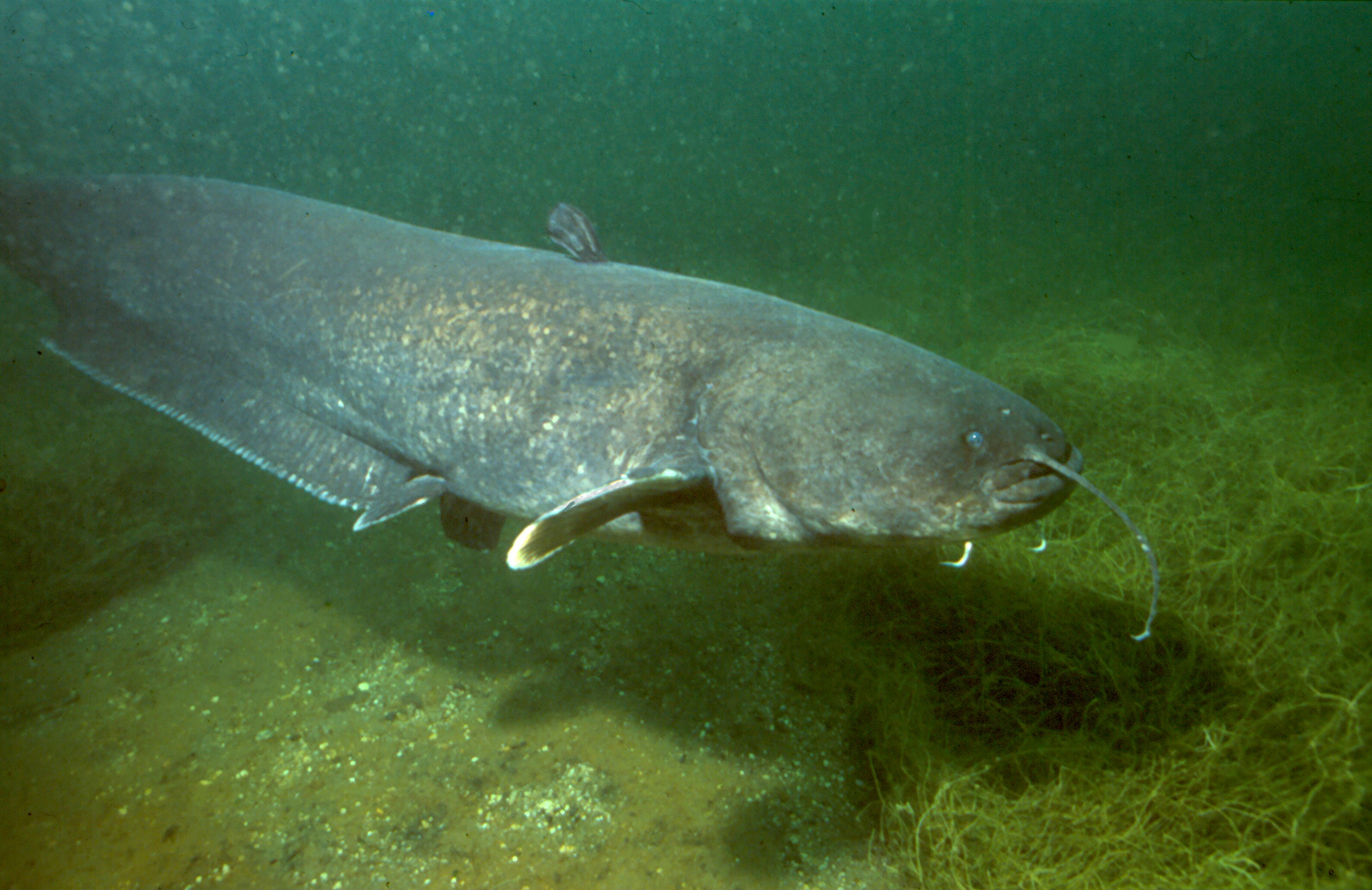 wels catfish in a former surface mine near Leipzig